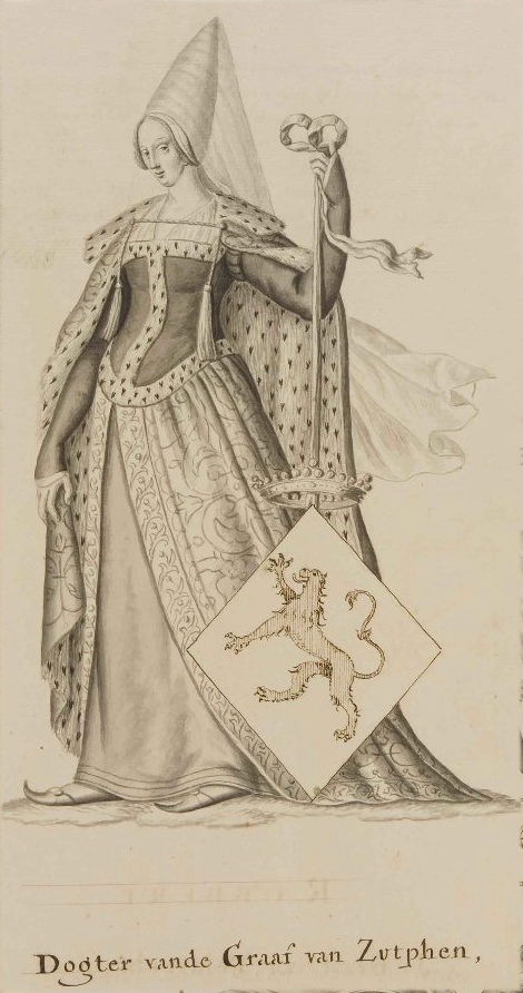 Daughter of the count of Zutphen